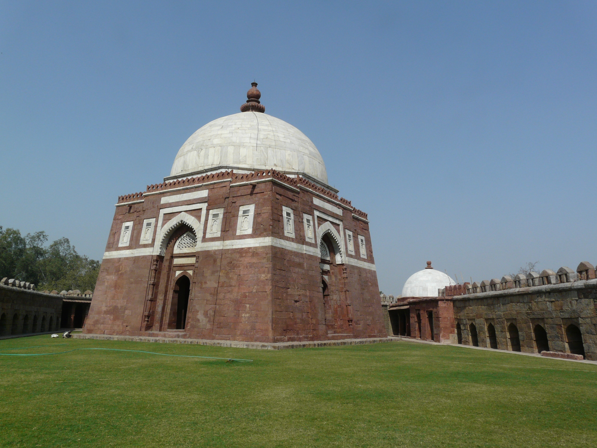 Mausoleum of Ghiyath al-Din Tughluq, also showing a side tomb.